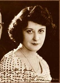 Cropped publicity photo of Flora Parker DeHaven from The Blue Book of the Screen by Ruth Wing, editor